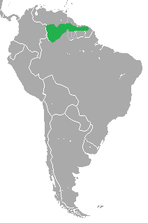 Guianan White-eared Opossum (Didelphis imperfecta) range